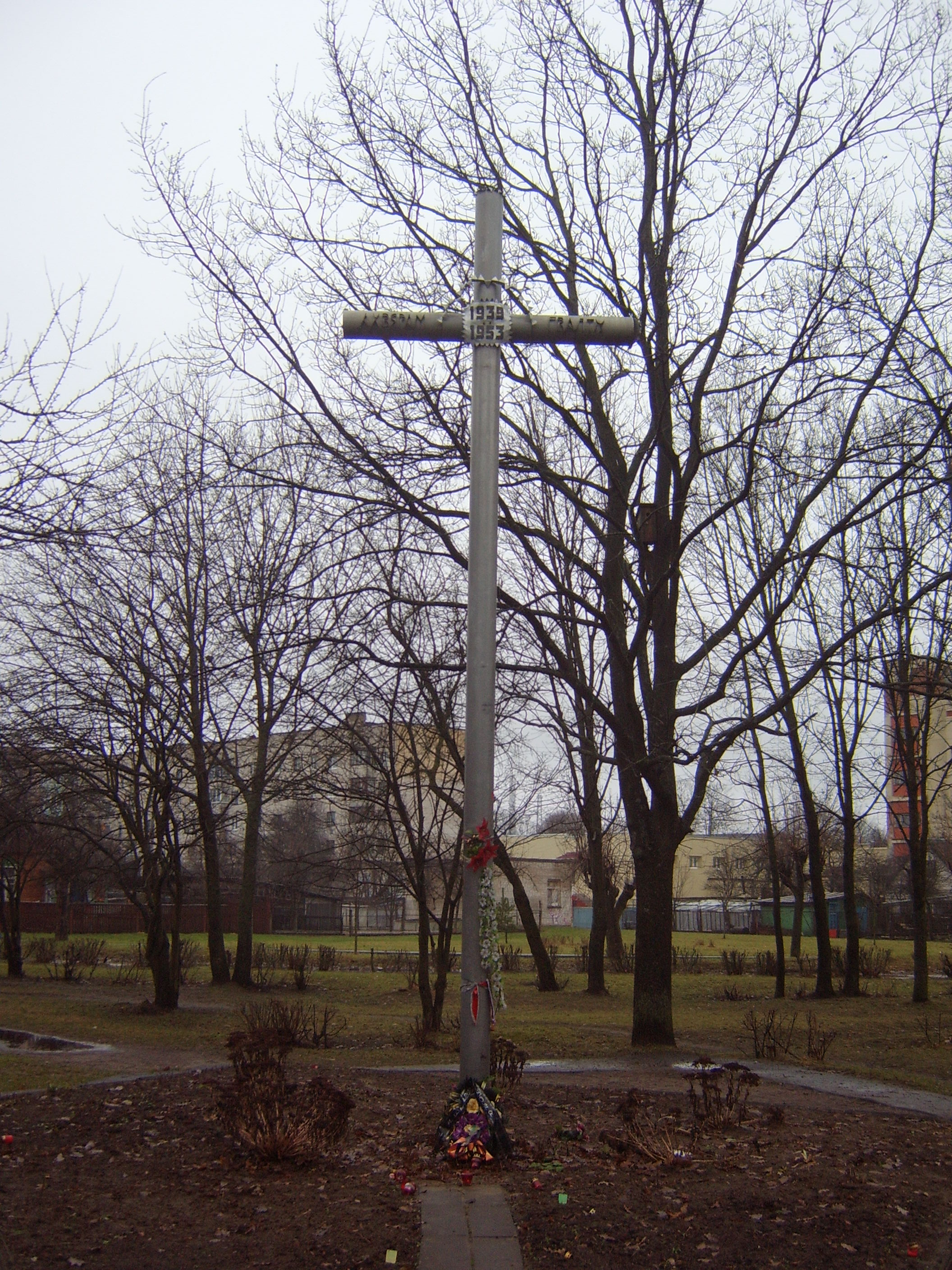 Cross to the victims of Communist repression, 1939-1953, Baranavichy, Belarus